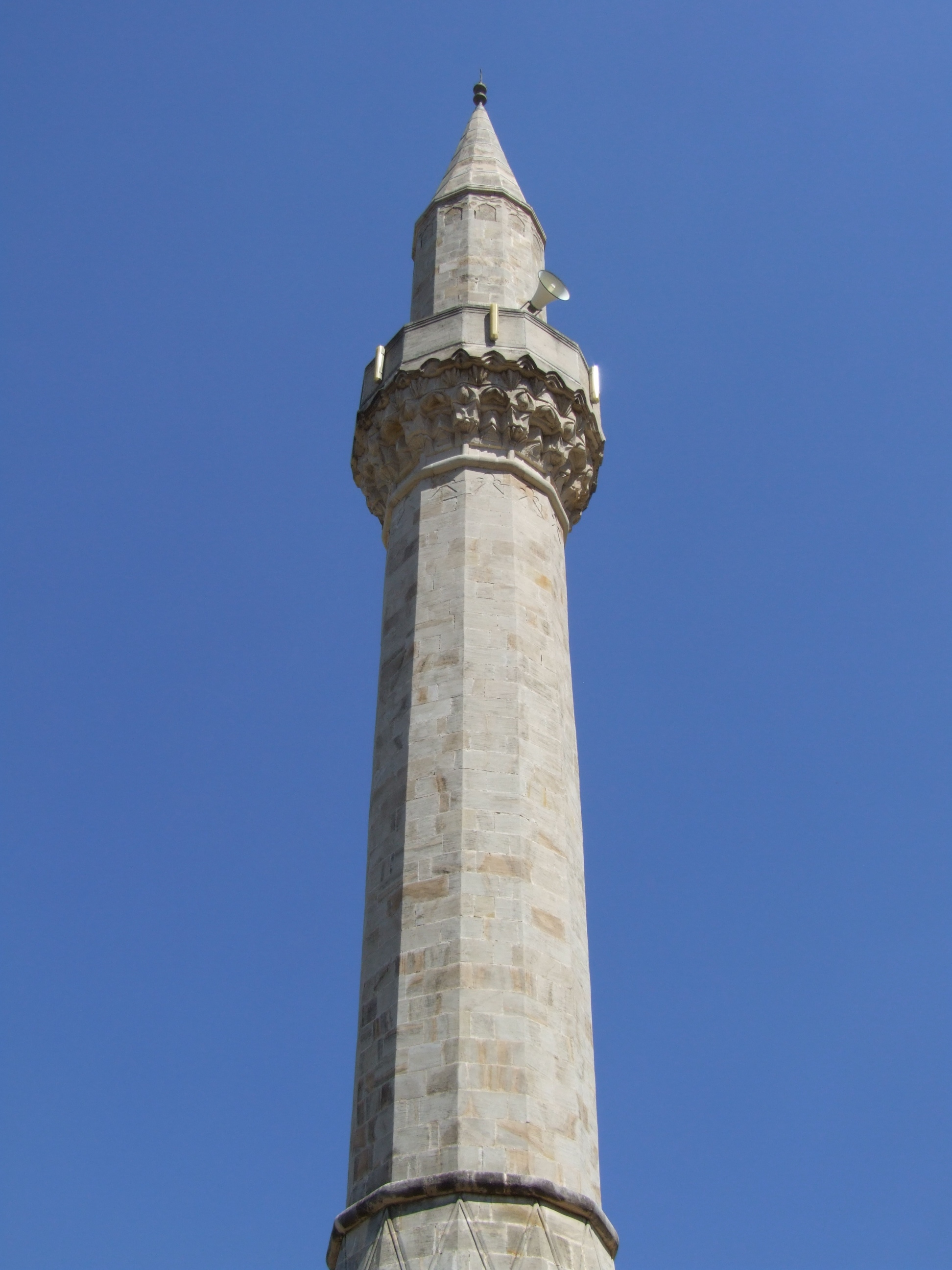 Tabacica mosque in Mostar (built in XV century) - minaret (20 meters high)